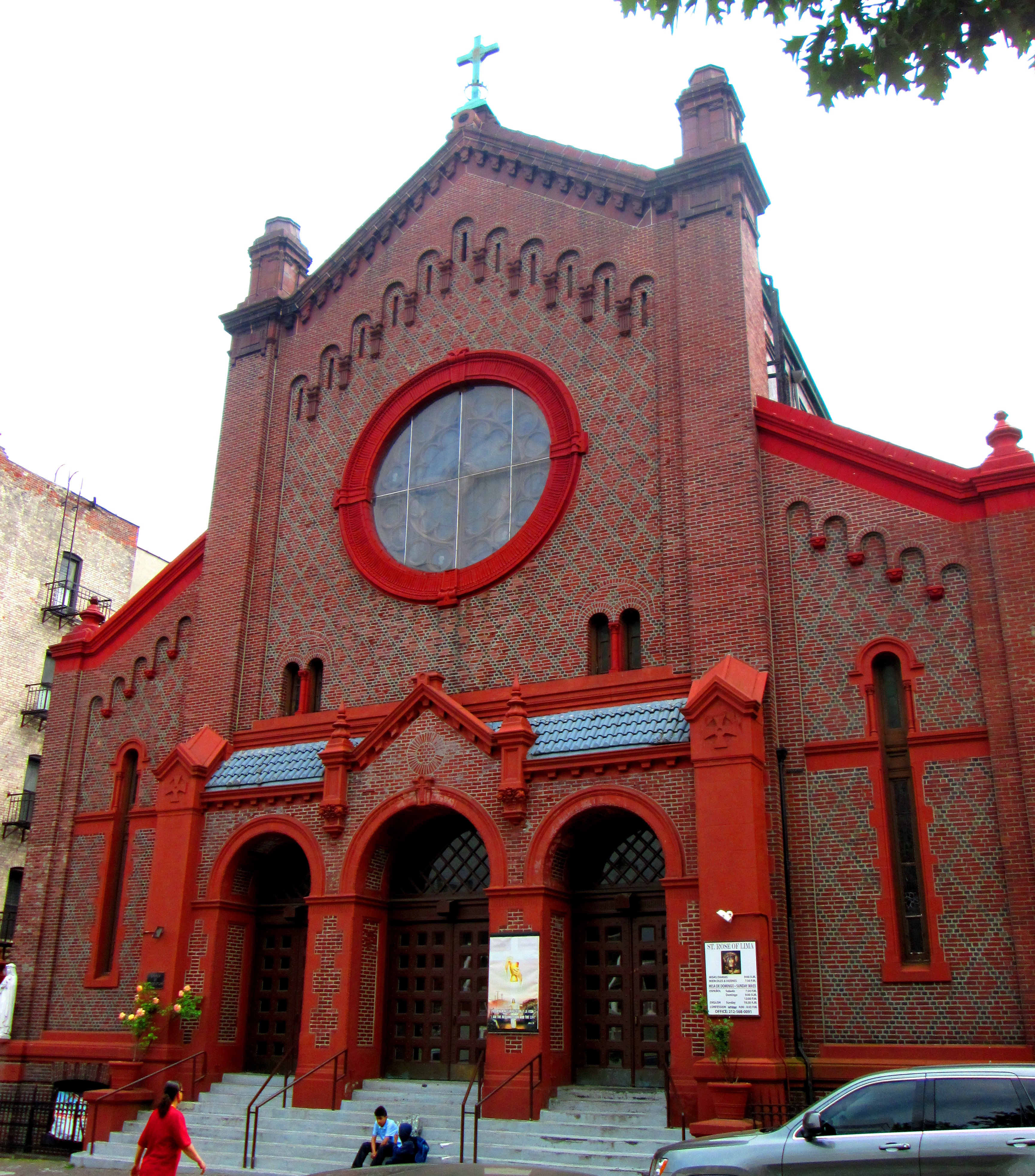 The Church of St. Rose of Lima is a Roman Catholic parish church in the Roman Catholic Archdiocese of New York, located at 510 West 165th Street between Audubon and Amsterdam Avenues in the Washingtom Heights neighborhood of Manhattan, New York City. The Romanesque Revival church was designed by Joseph H. McGuire and built in 1902-05. The rectory next door, also designed by McGuire, was built in 1903-1904. The parish school at 1086 St. Nicholas Avenue on the corner of West 164th Street was built in 1924-25 and was designed by Robert J. Reilly, as was the convent at 511 West 164th Street between St. Nicholas and Audubon Avenues, which is now the location of the Centro Altagracia de Fey y Justicia, a Roman Catholic agency dedicated to faith and social justice. The parish was founded in 1901.